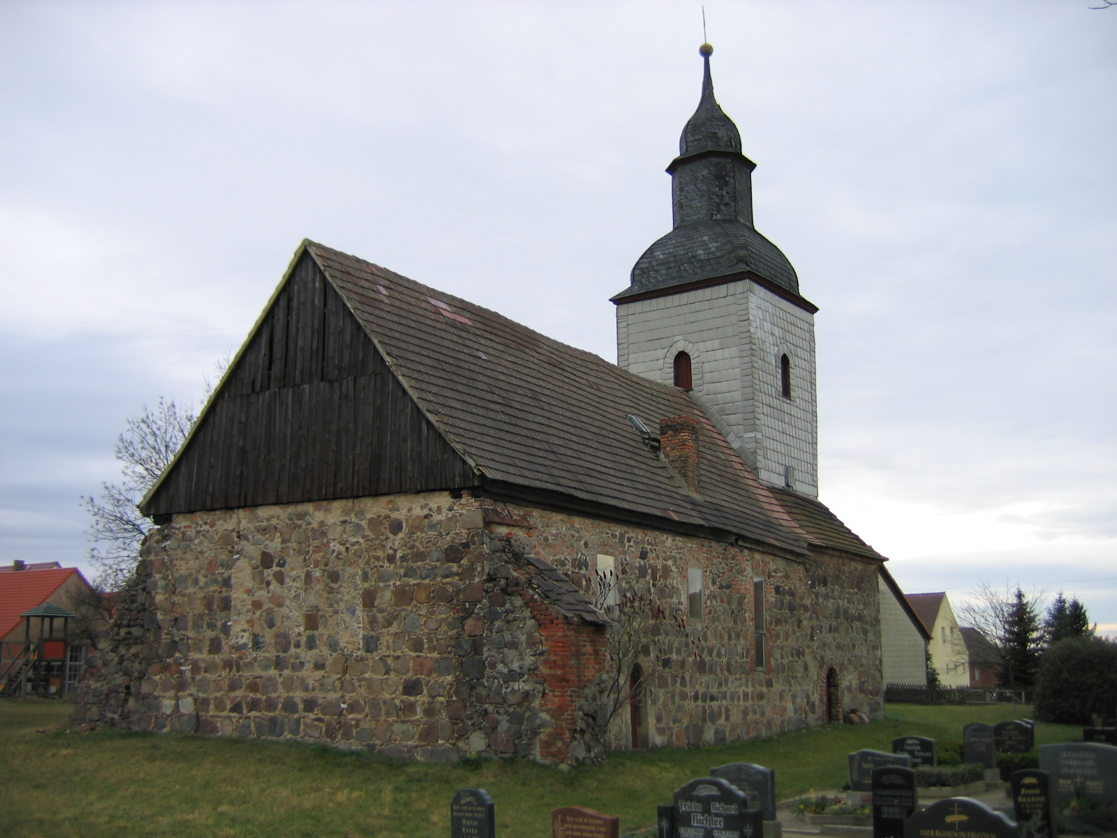 Rural church of Riesdorf, Gem. Niederer Fläming, Lkr. Teltow-Fläming, Brandenburg, Germany, view from west